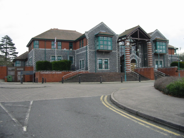 Canterbury Combined Court Centre, where Canterbury Crown Court and Canterbury County Court are based.